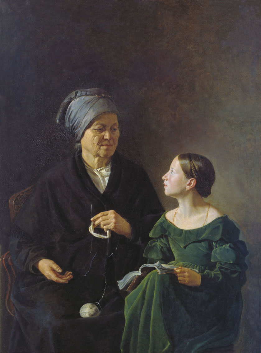 Mohov Mihail. Grandmother and granddaughter